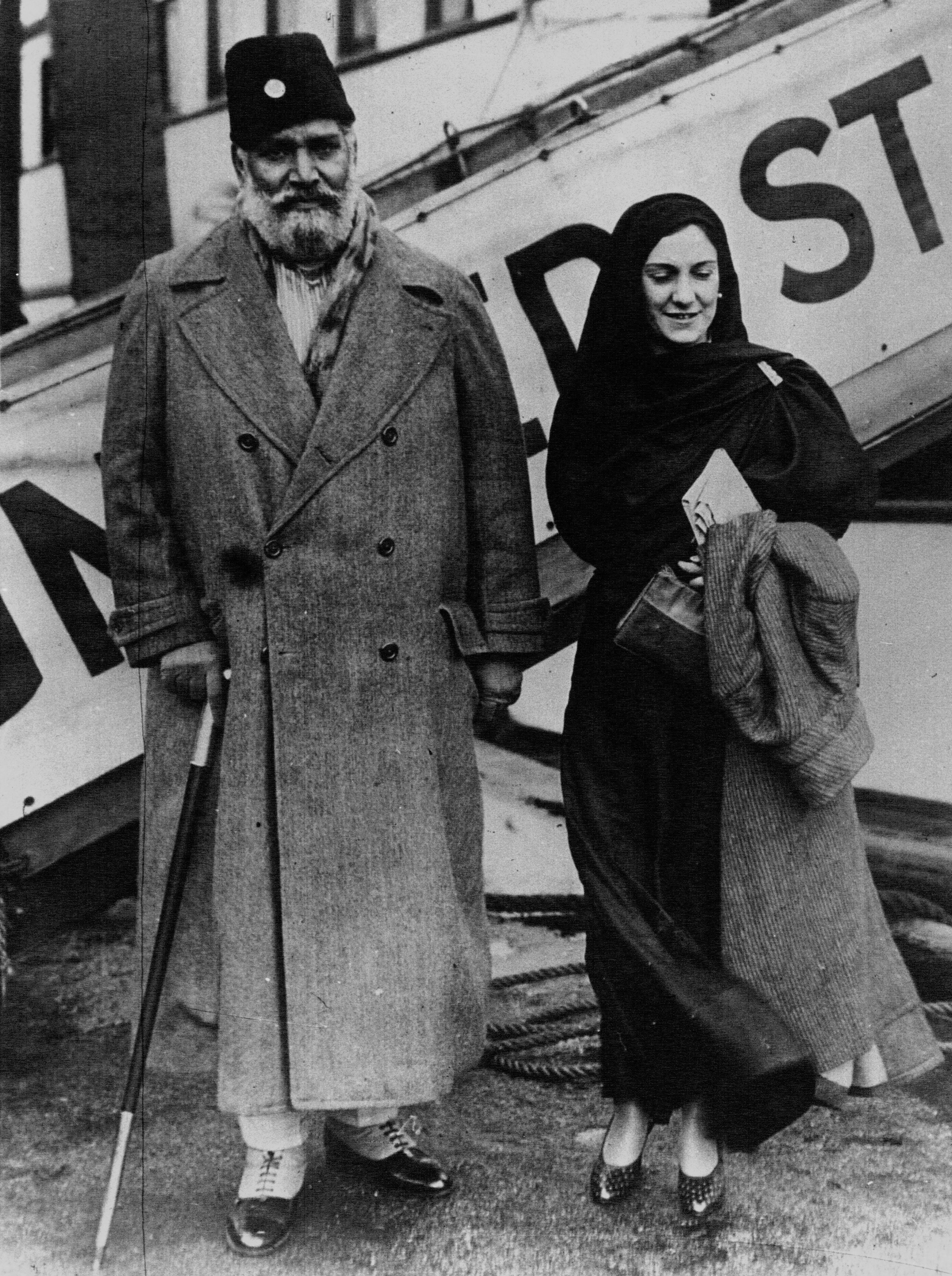 Indian Muslim nationalist Maulana Shaukat Ali (1873-1938) and his wife in Southampton, England, on their way to the United States in 1932.